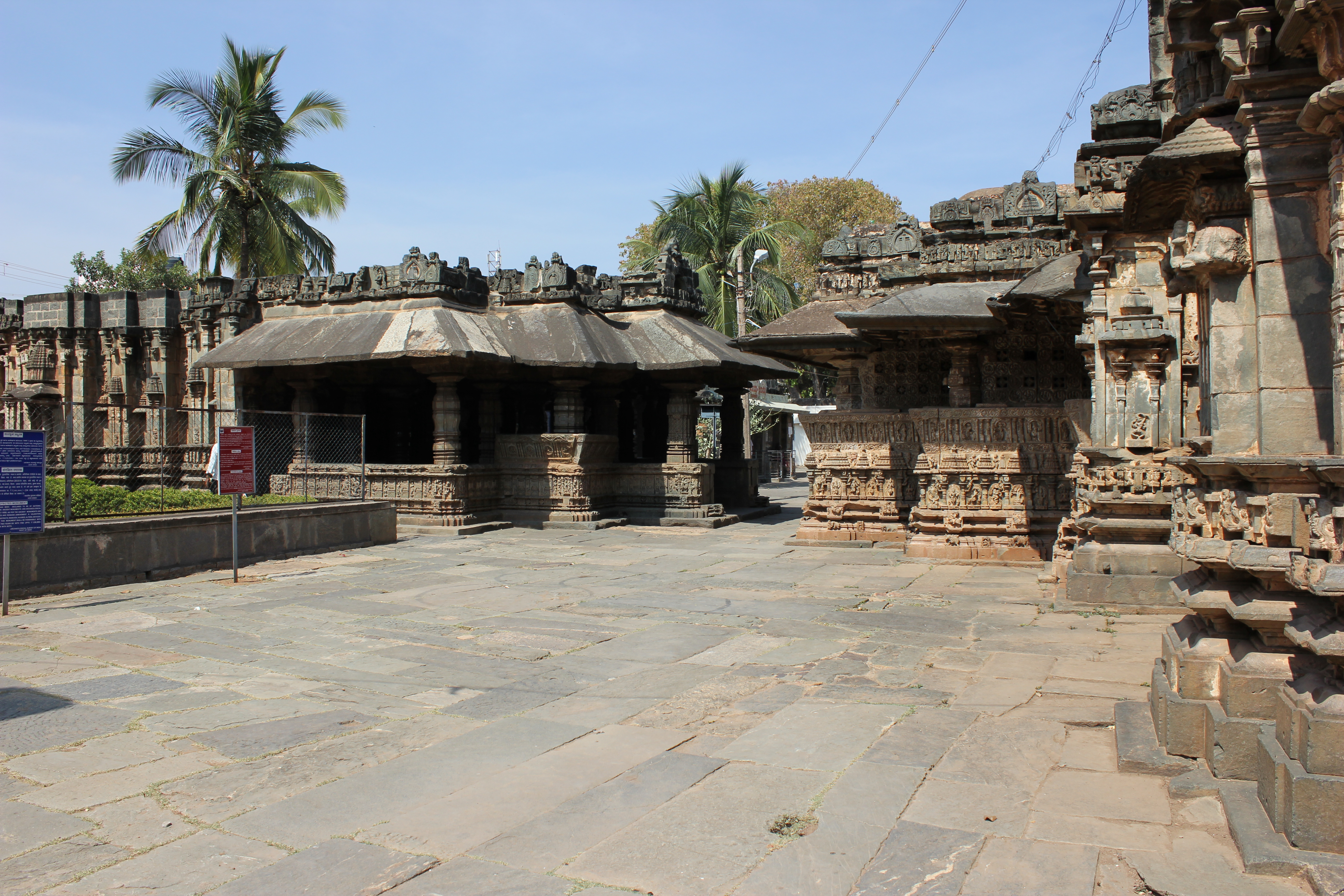 This photograph was taken by me at the Trikuteshwara (also spelt Trikuteshvara or Trikutesvara) temple complex in Gadag city, Gadag district, Karnataka state, India. The temple was built around 1070 C.E by the Western Chalukyas (also known as Kalyani Chalukyas or Later Chalukyas) during their rule over the region.